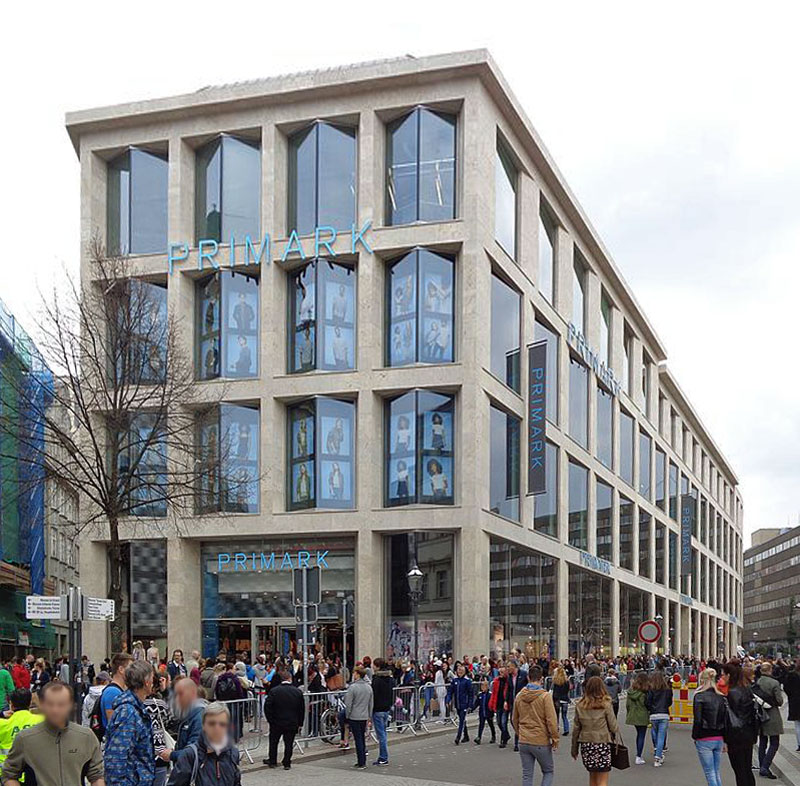 Primark-Filiale Hainspitze in Leipzig, Hainstr. 21-23, in April 2016. The opening of this shop was on April 7th, 2016.